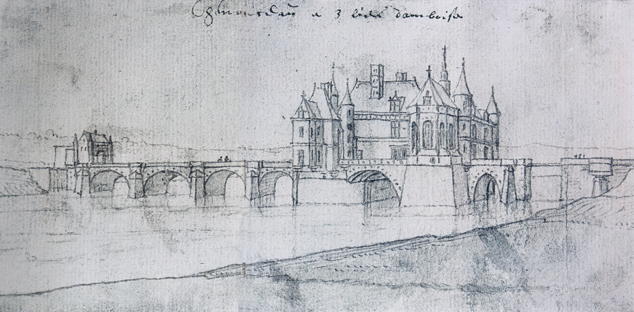 Ink drawing of the château de Chenonceau before 1576